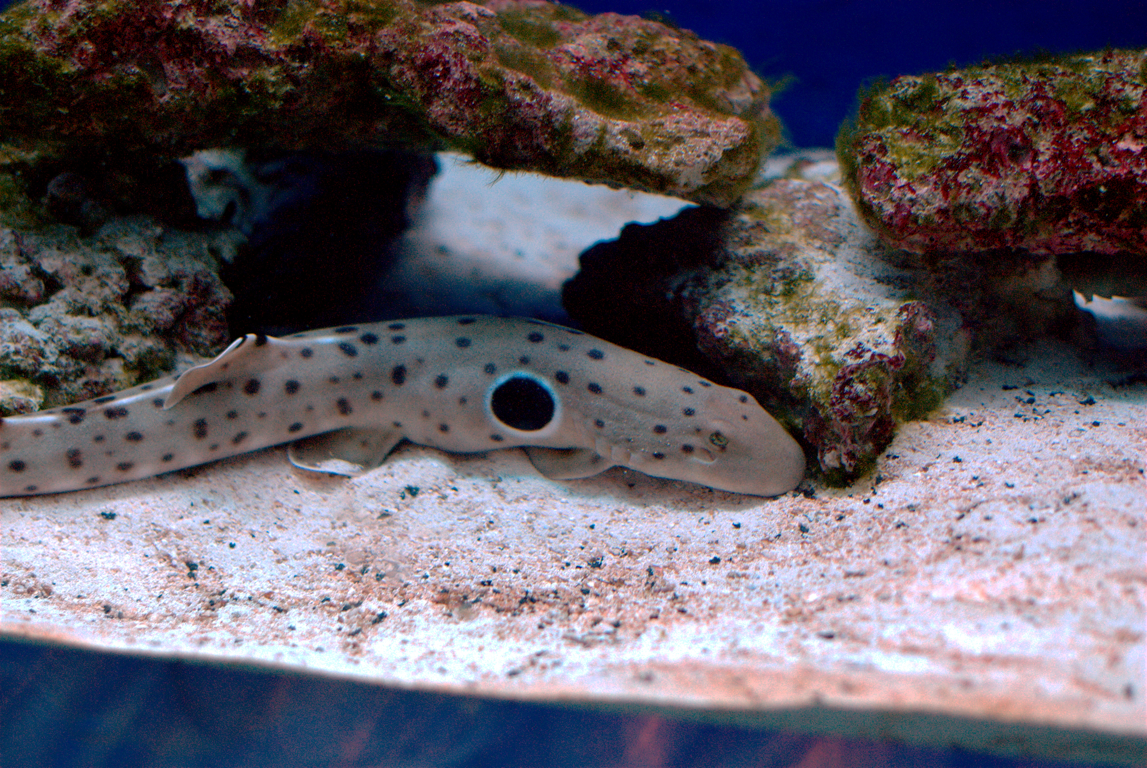 Epaulette shark (Hemiscyllium ocellatum) at the Adventure Aquarium, Camden